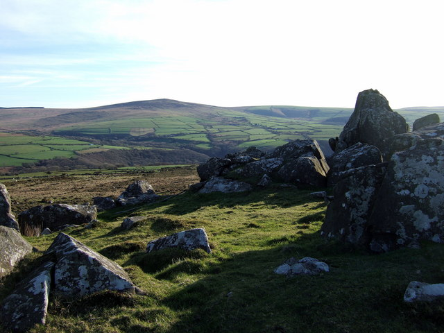 Carn Edward with view to Cerrig Lladron.